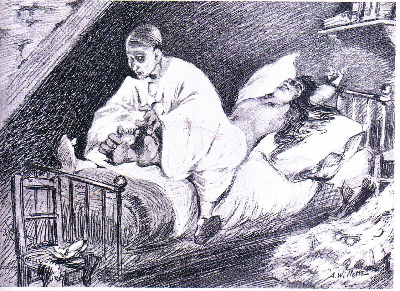 Drawing by Adolphe Willette of Pierrot tickling Columbine to death, published in Le Pierrot, December 7, 1888.